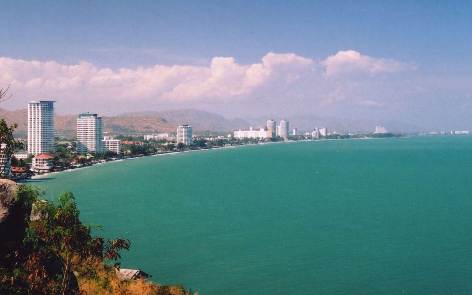 Waterfront of Hua Hin showing the many hotels at the beach. View from the Takiab rock south of Hua Hin. Photo taken by User:Ahoerstemeier on January 13 2005.